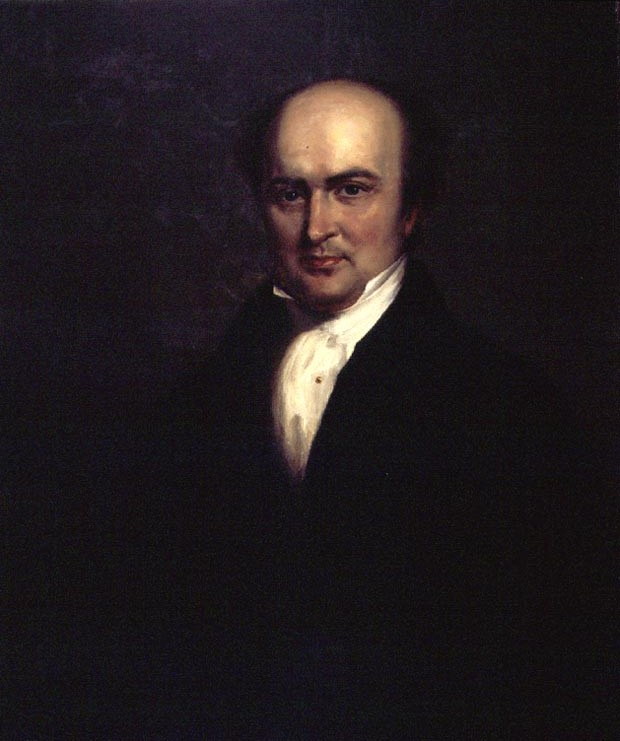 Levi Woodbury, Secretary of the Navy, 23 May 1831 - 30 June 1834